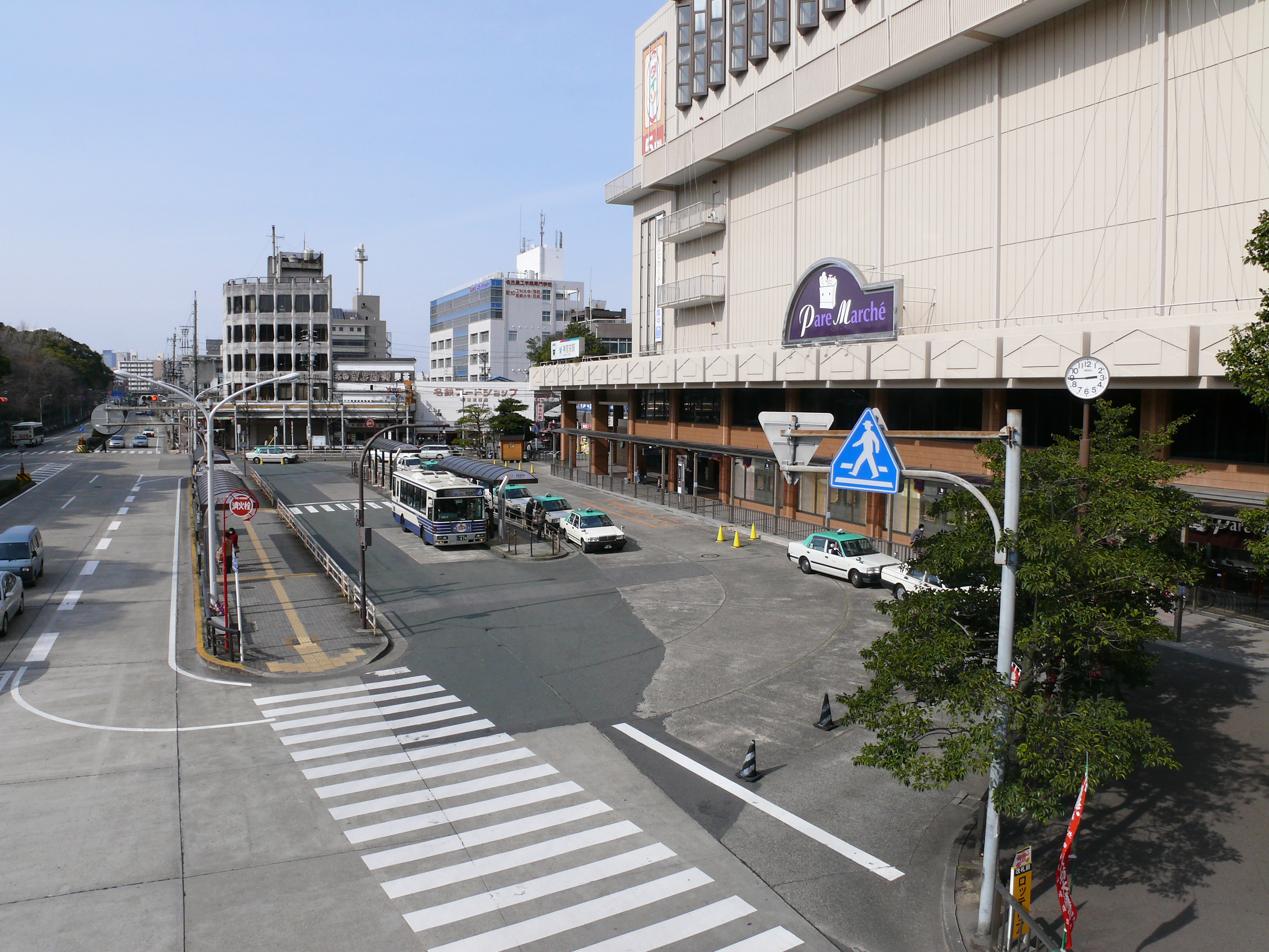 Meitetsu Jingu Mae Station.